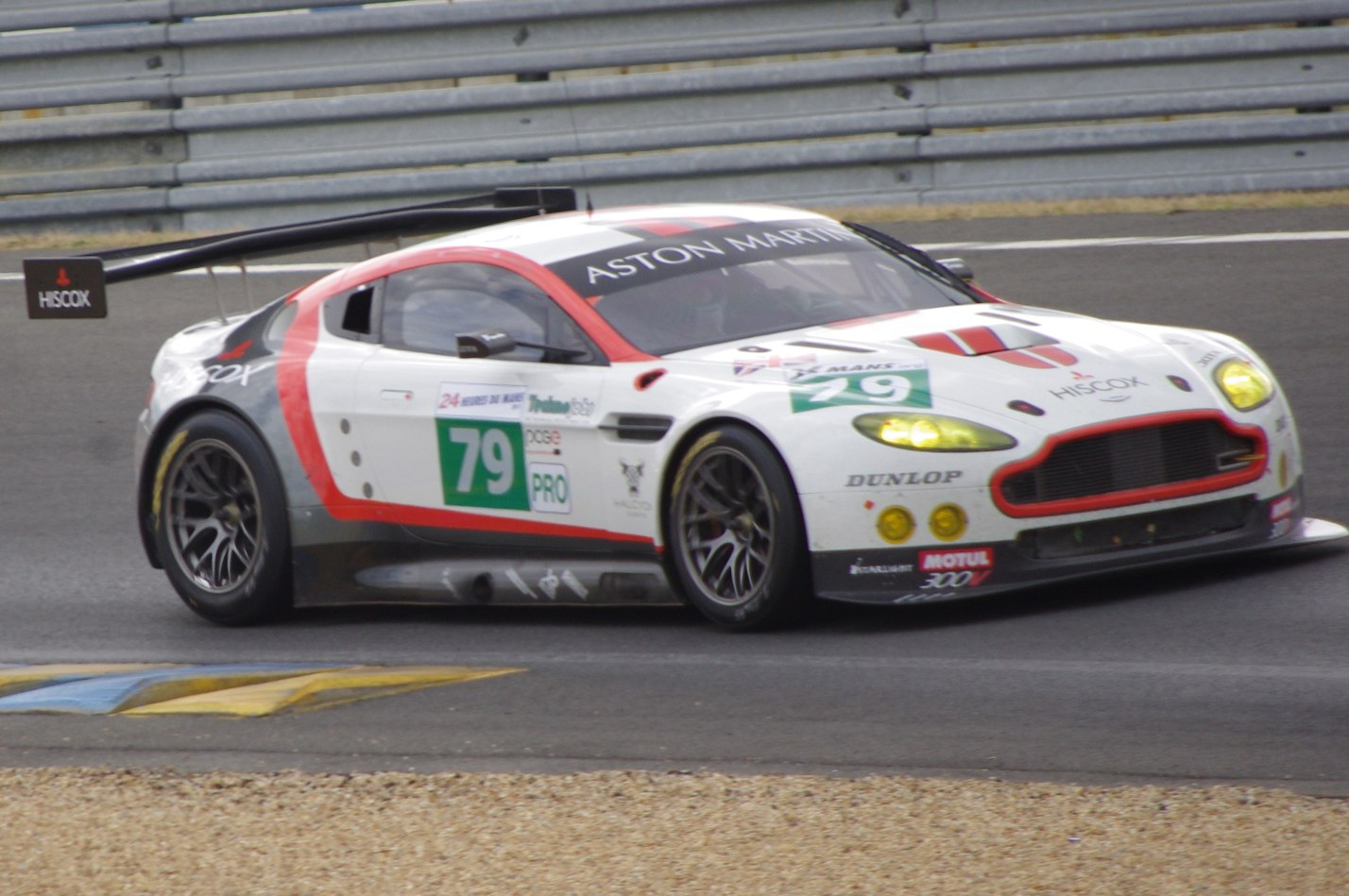 Jota Sport's Aston Martin V8 Vantage Driven by Sam Hancock, Simon Dolan and Chris Buncombe at the 2011 24 Hours of Le Mans